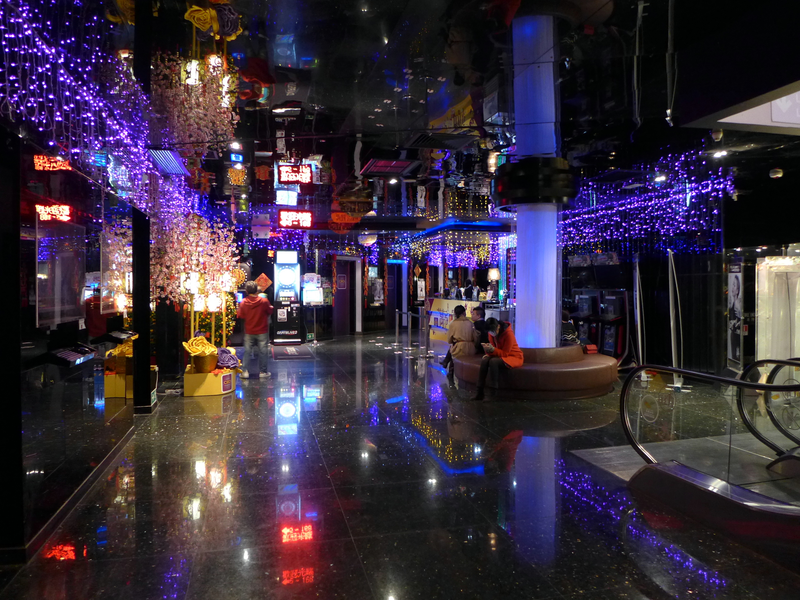 HK MegaBox Level17 Neway Karaoke